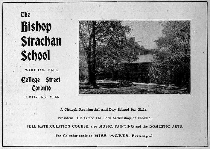 Advertisement for Bishop Strachan School, located in Toronto, Canada, placed in The Busy Man's Magazine.